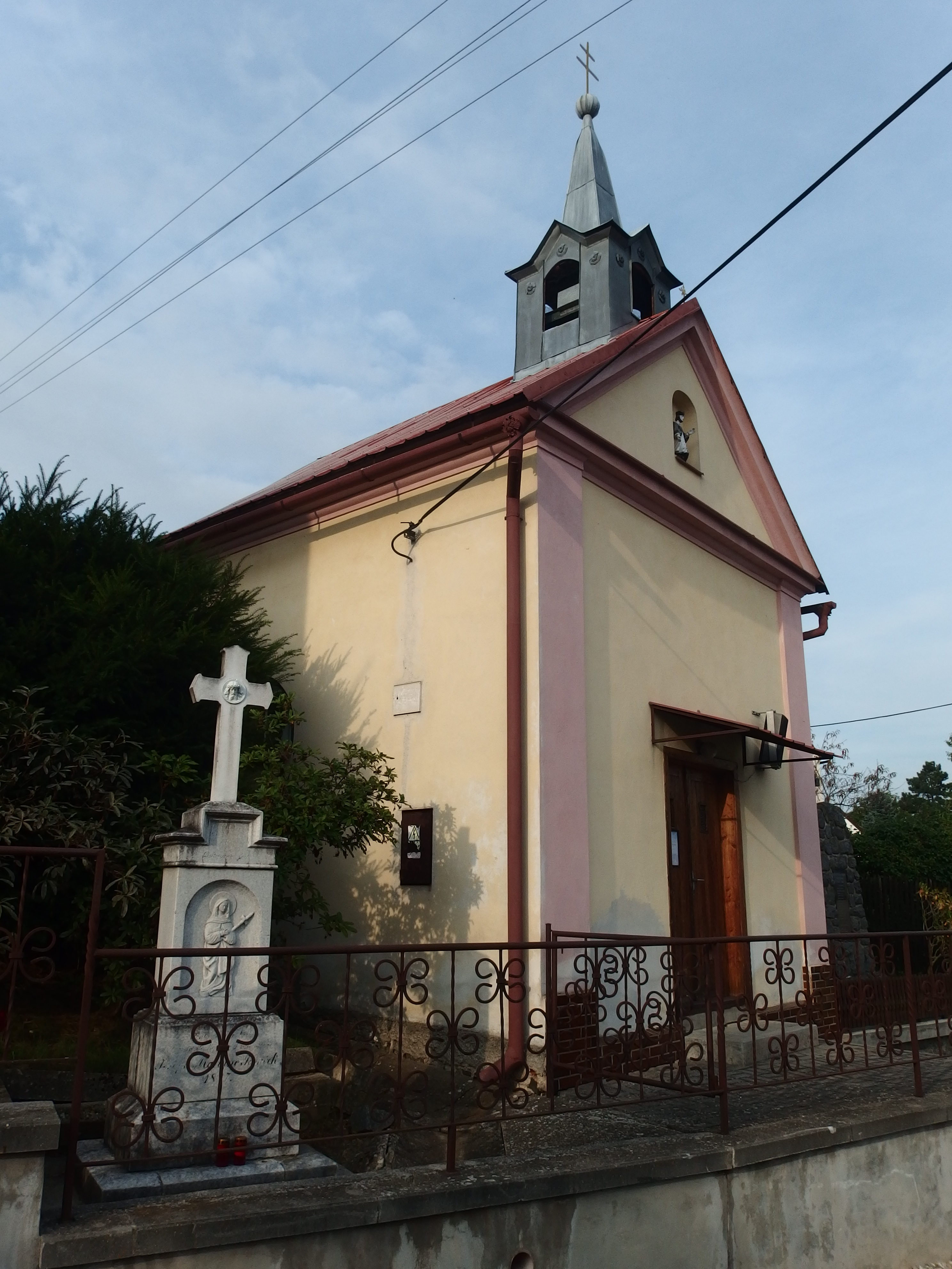 Nemile, Šumperk District, Czechia.